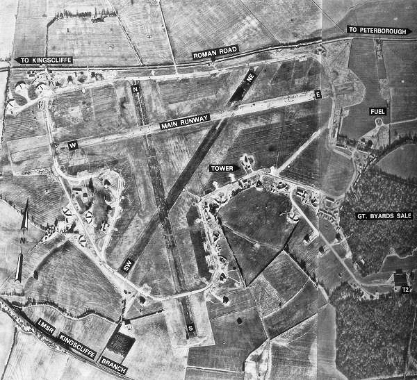 Aerial photograph of Kings Cliffe Airfield, England.